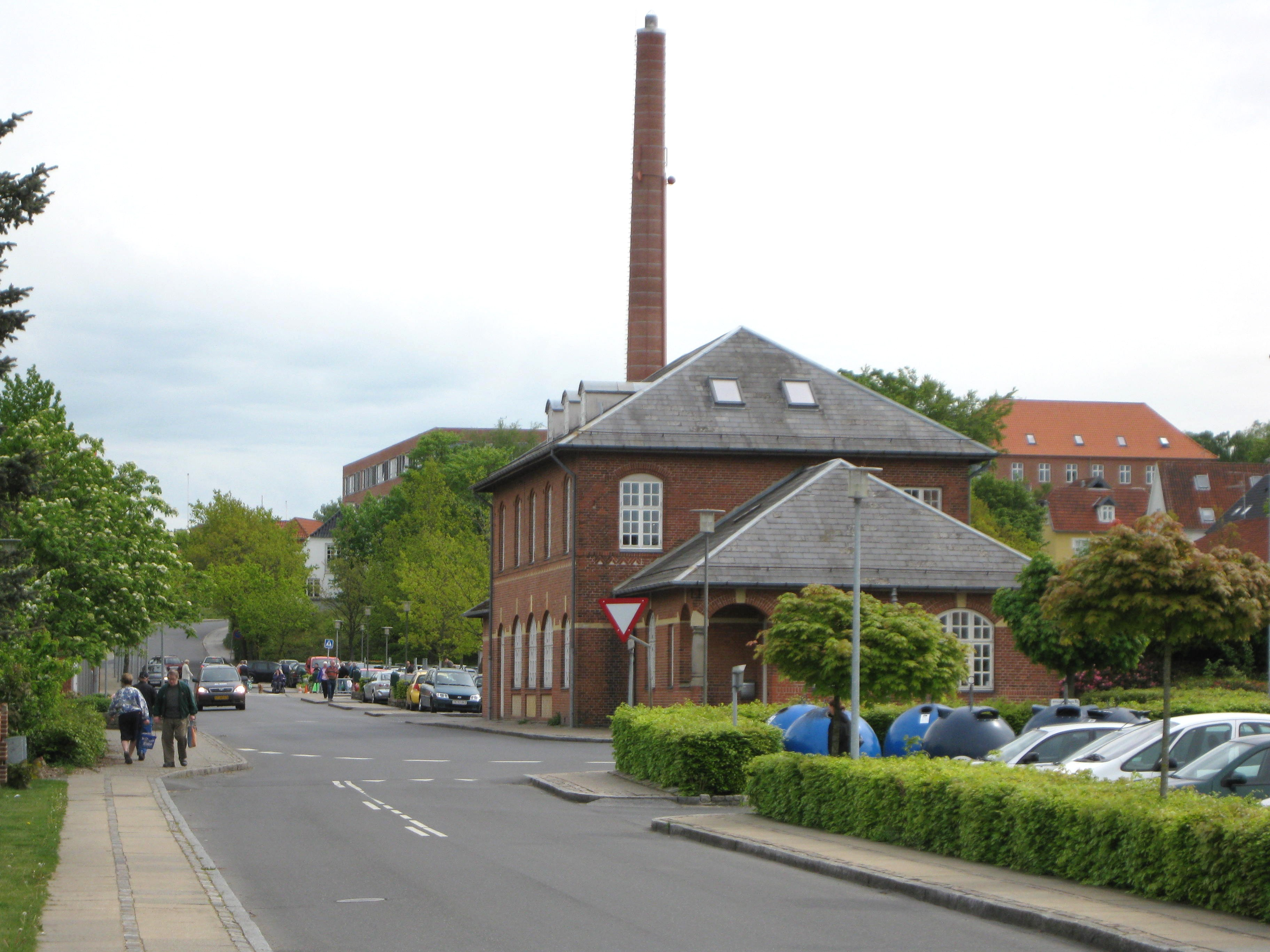 The former train station in the small town "Hammel". The town is located in East Jutland, Denmark.